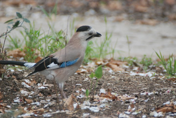 Garrulus glandarius atricapillus pictured in Israel